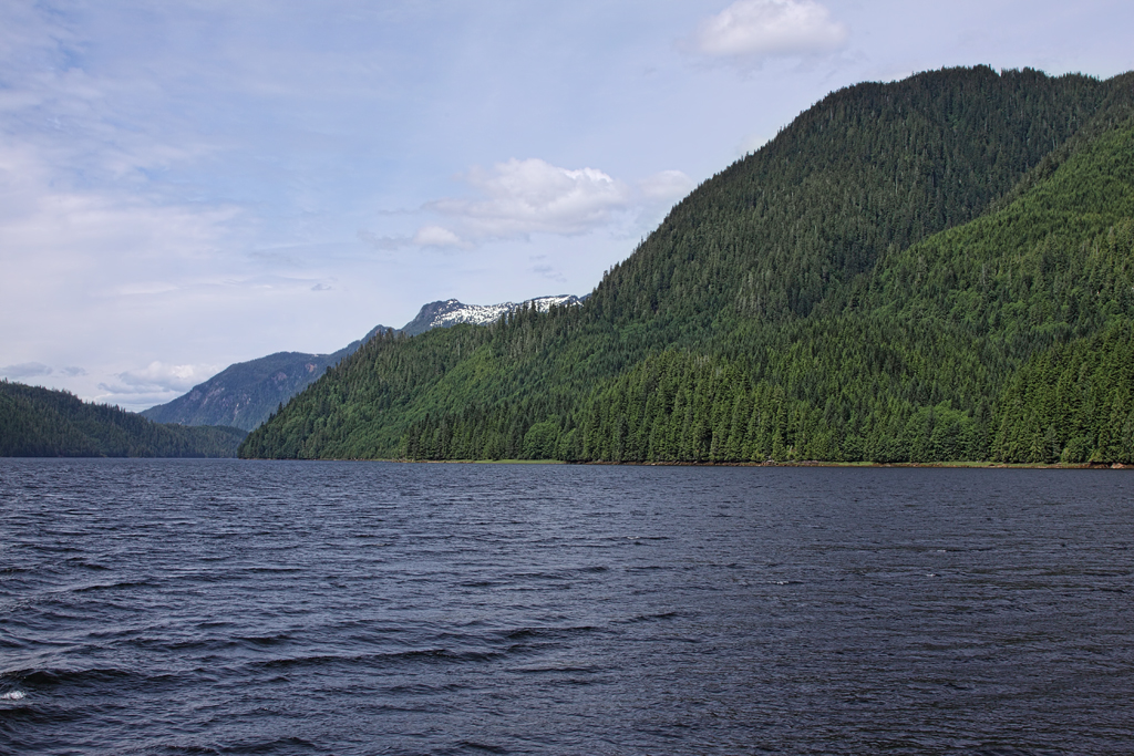 Looking Westward to the Pacific Ocean The inlet is adjacent to Khutzeymateen/K’tzim-a-deen Grizzly Bear Sanctuary (44,300 hectares) and protects important grizzly bear habitat. Khutzeymateen Inlet contains a number of locally important salmon bearing streams, key intertidal areas and areas of First Nations traditional use. The Khutzeymateen is historically associated with the Gitsi’is Tribe and associated with Lax Kw’alaams and Metlakatla First Nations (collectively Coast Tsimshian). Reference